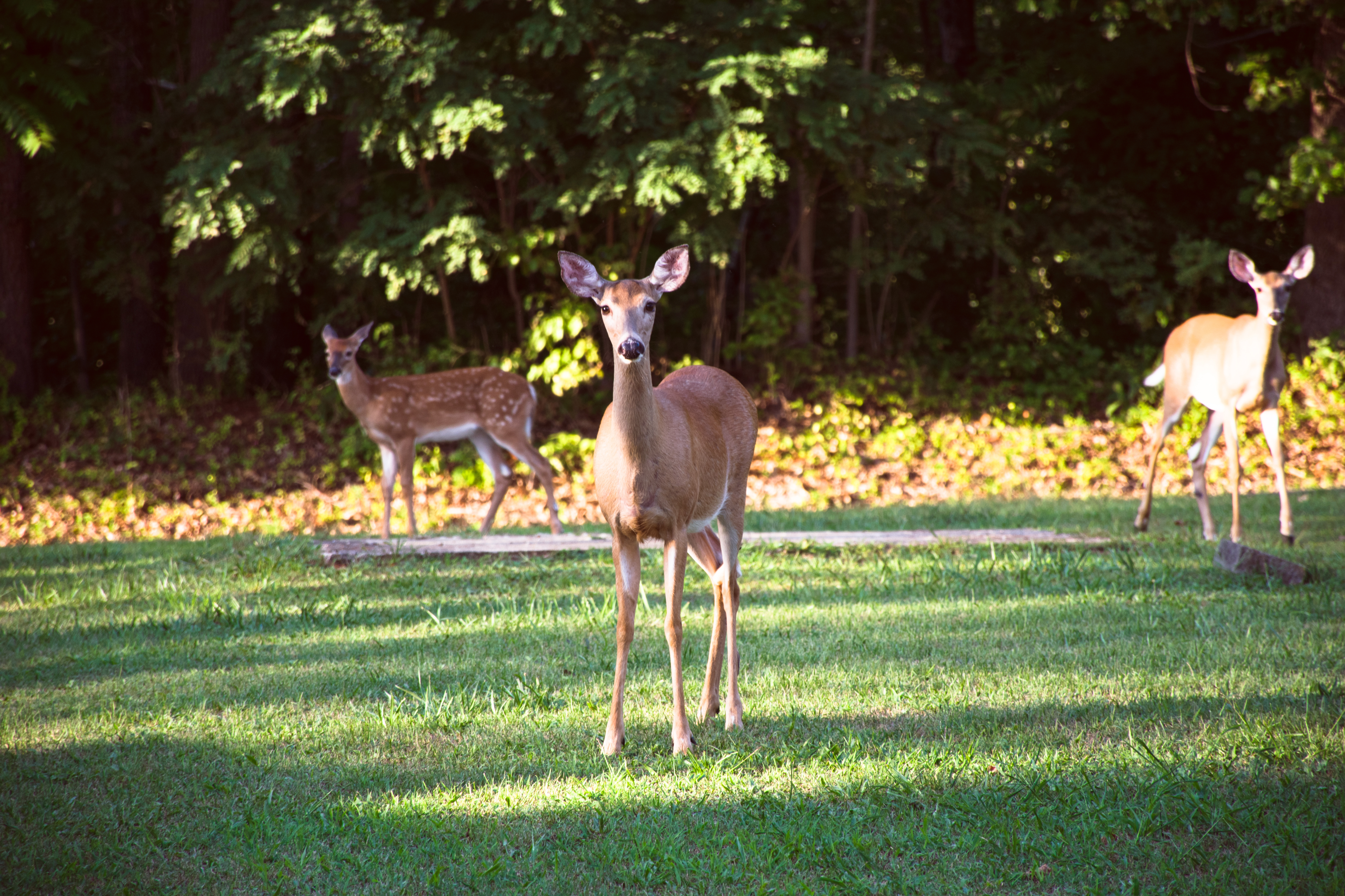 3 White-tailed deer in Buena Vista, VA